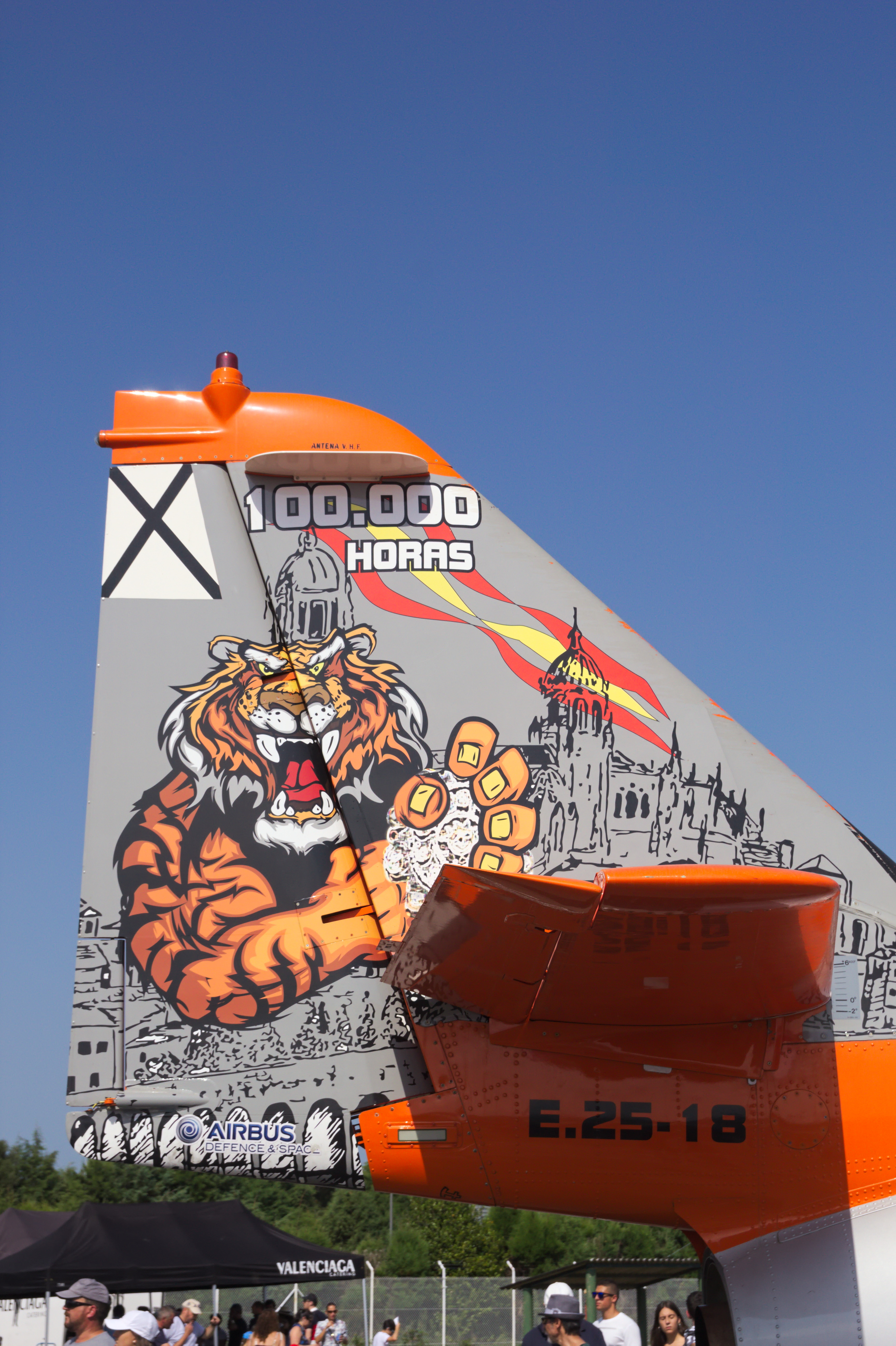 CASA C-101 during the open day in the military aerodrome in Lavacolla (Santiago de Compostela) in its 25 anniversary.